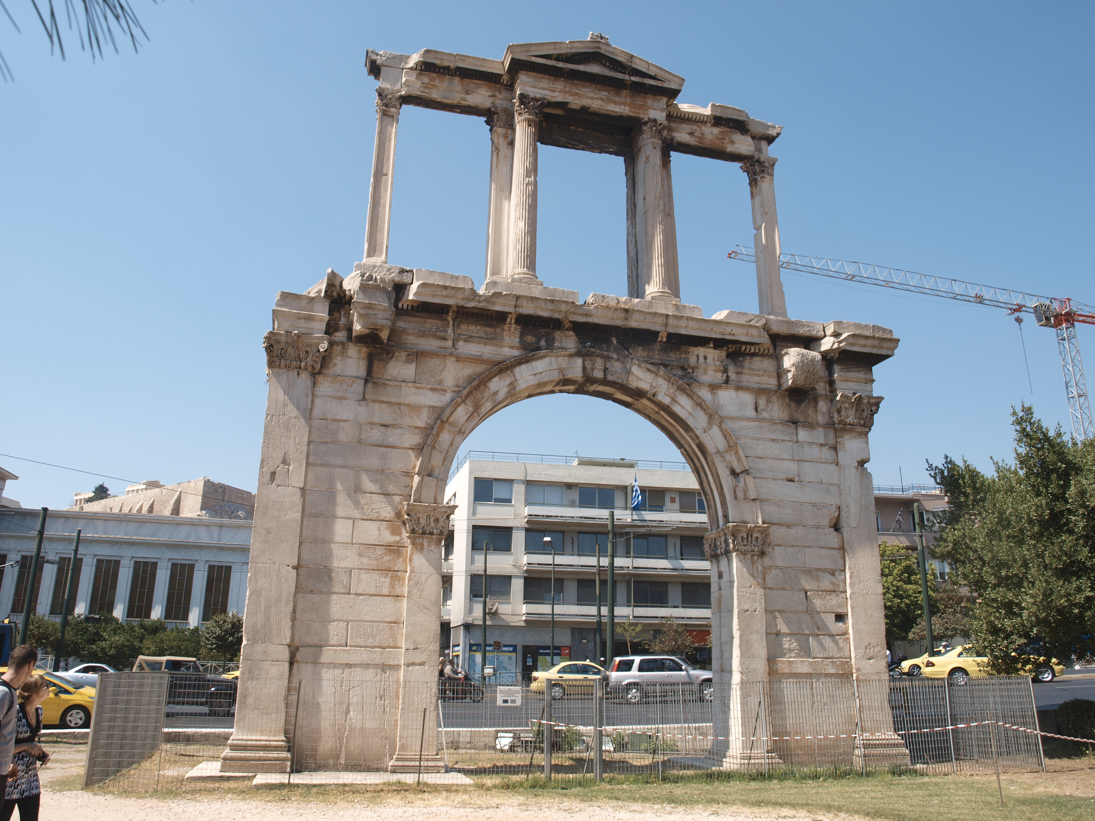 AWIB-ISAW: The Arch of Hadrian (I) The arch constructed by Hadrian in Athens. by Irene Soto (2010) copyright: 2010 Irene Soto (used with permission) photographed place: Athenae (Athens) Published by the Institute for the Study of the Ancient World as part of the Ancient World Image Bank (AWIB). Further information